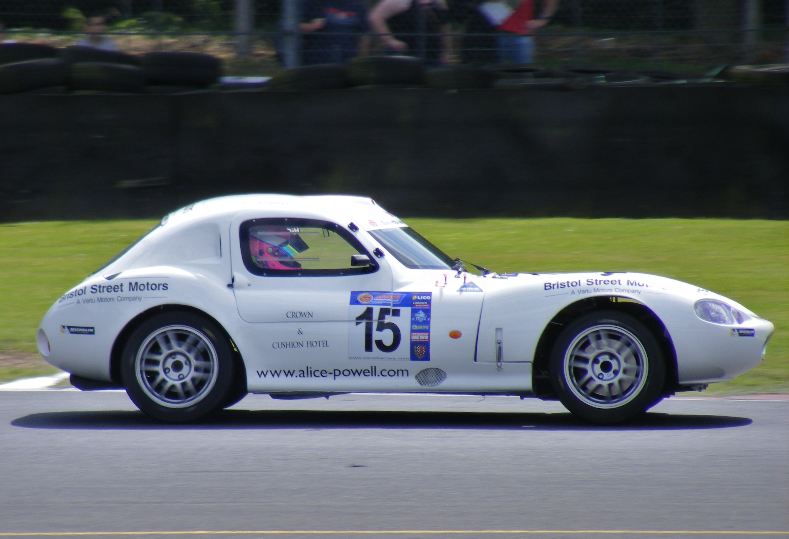 Alice Powell drinving for Ginetta Junior Championship.